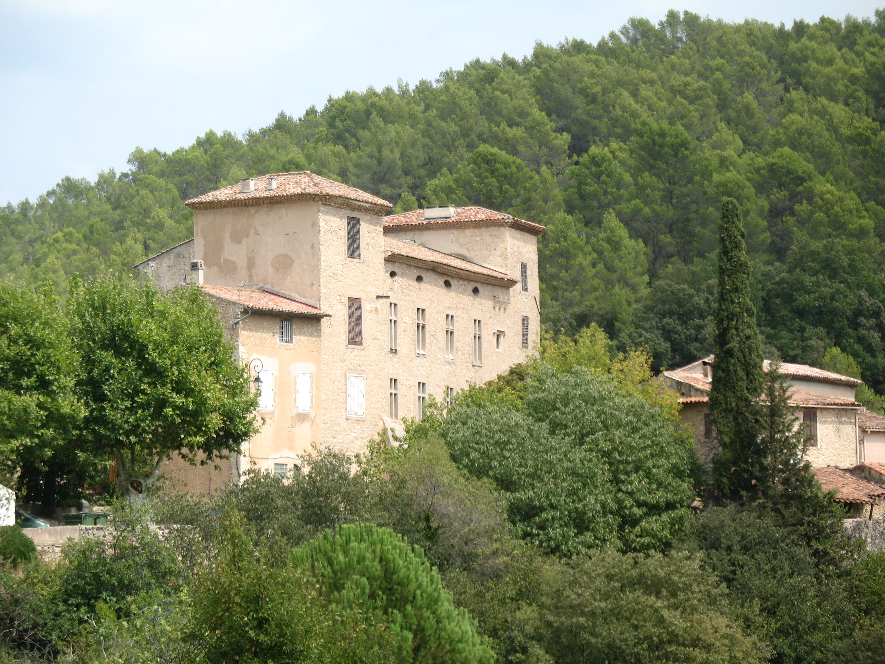 Castel Montfort-sur-Argens